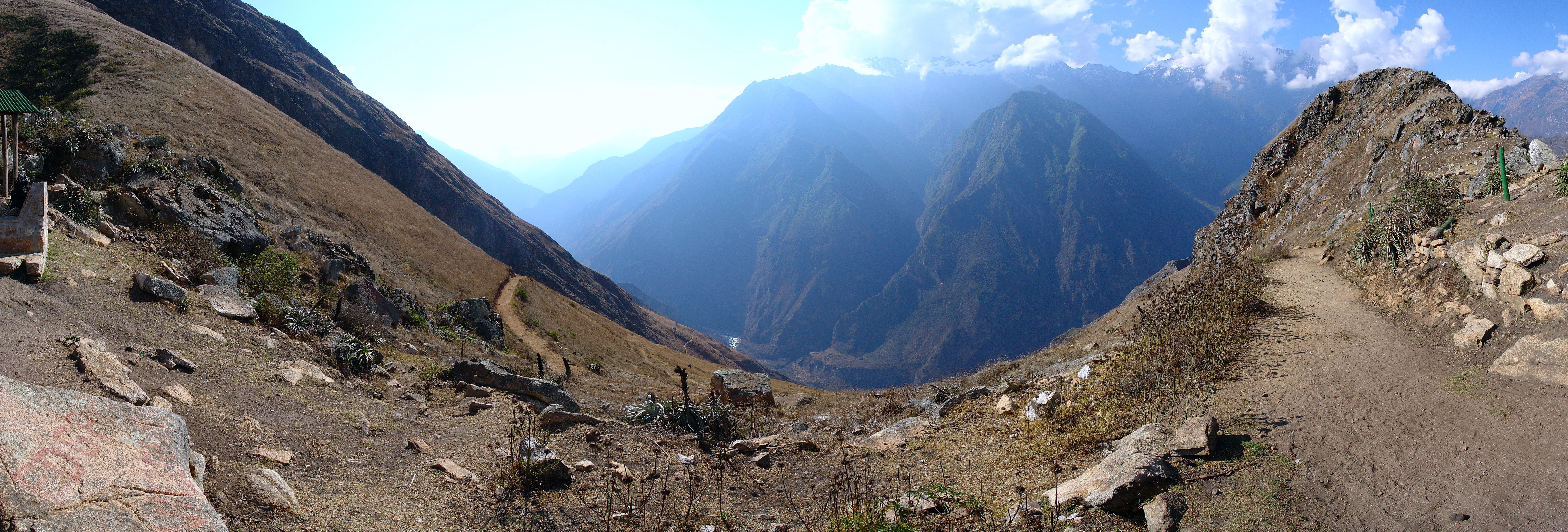 Trail heading towards inca ruins of Choquequirao, at 12 km from the city of Cachora